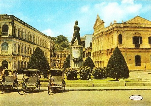 Statue of Lieutenant Mesquita at Senado Square circa 1955